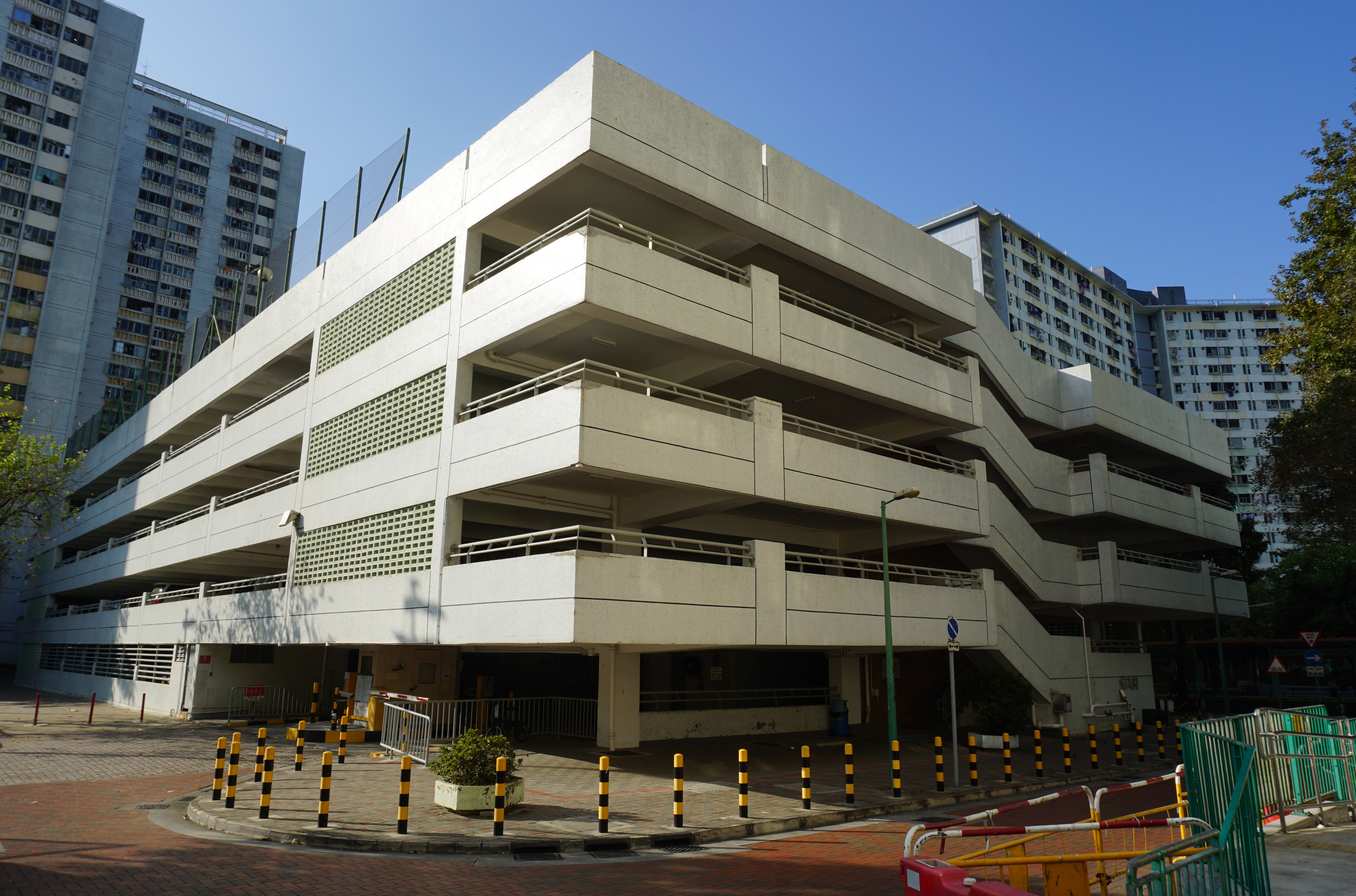 Yau Oi Estate in Tuen Mun, Hong Kong.